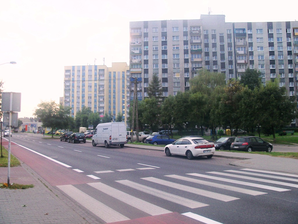 Jankego Street in Katowice - Piotrowice